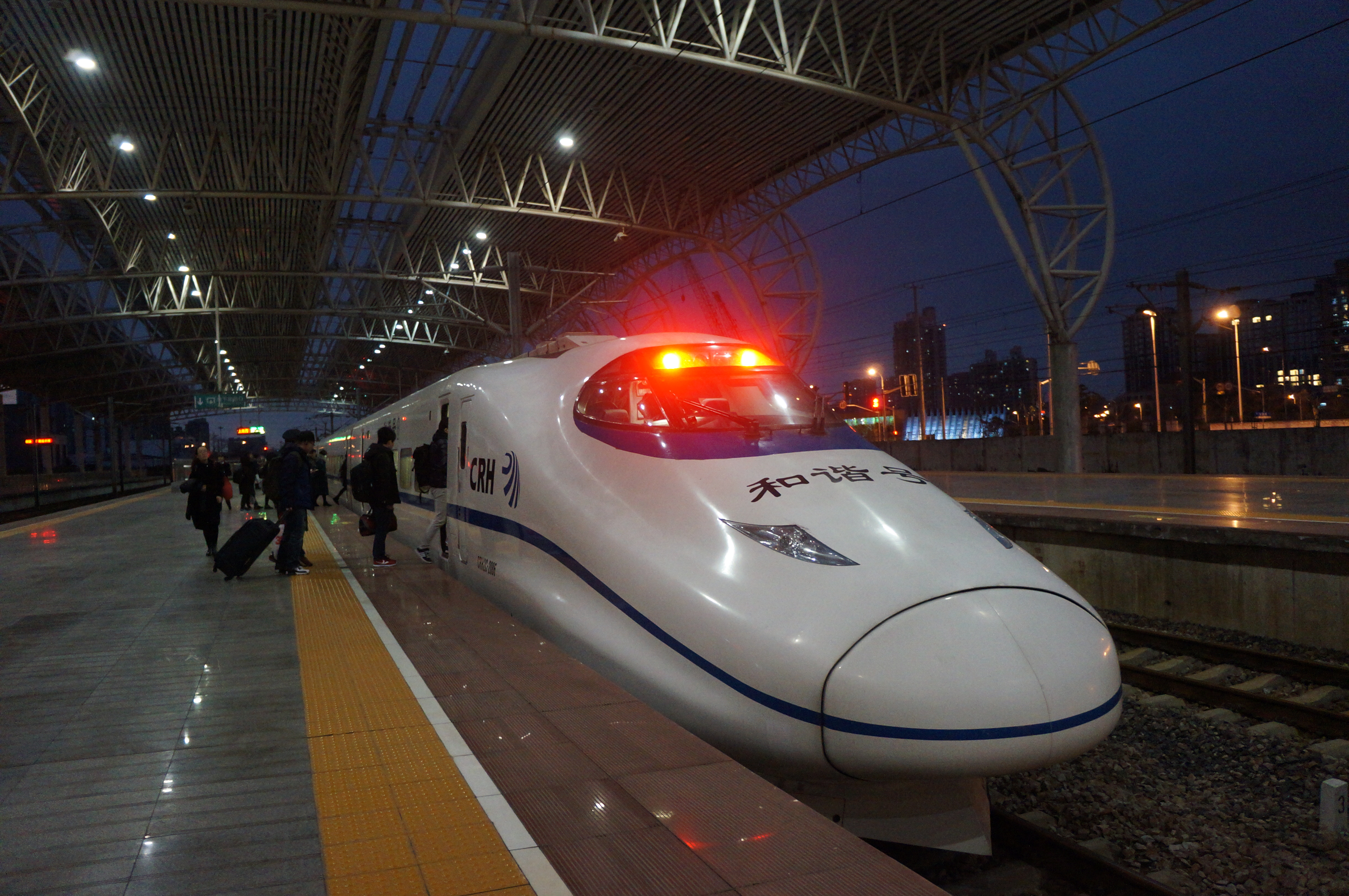 201701 G7056 at Shanghaixi Station